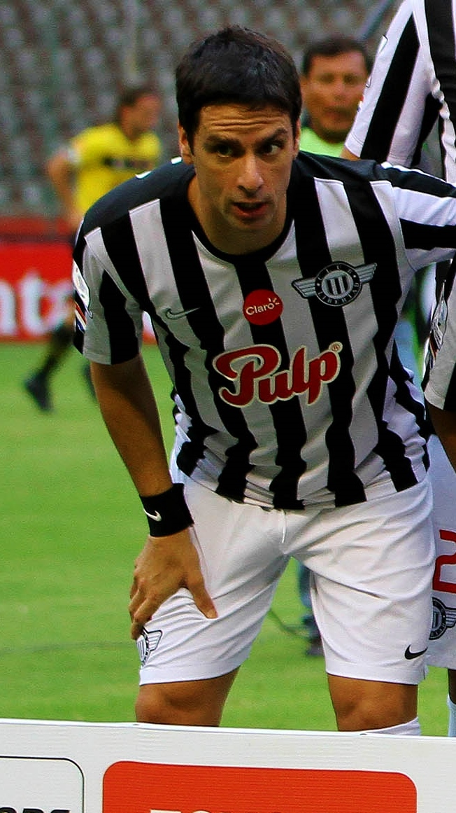 Hernán Rodrigo López. Guayaquil, Martes 3 de marzo del 2015 (ANDES).-Libertad de Paraguay enfrenta al Barcelona de Ecuador en el partido jugado en el estadio Monumental por Copa LibertadoresFoto:César Muñoz/ANDES